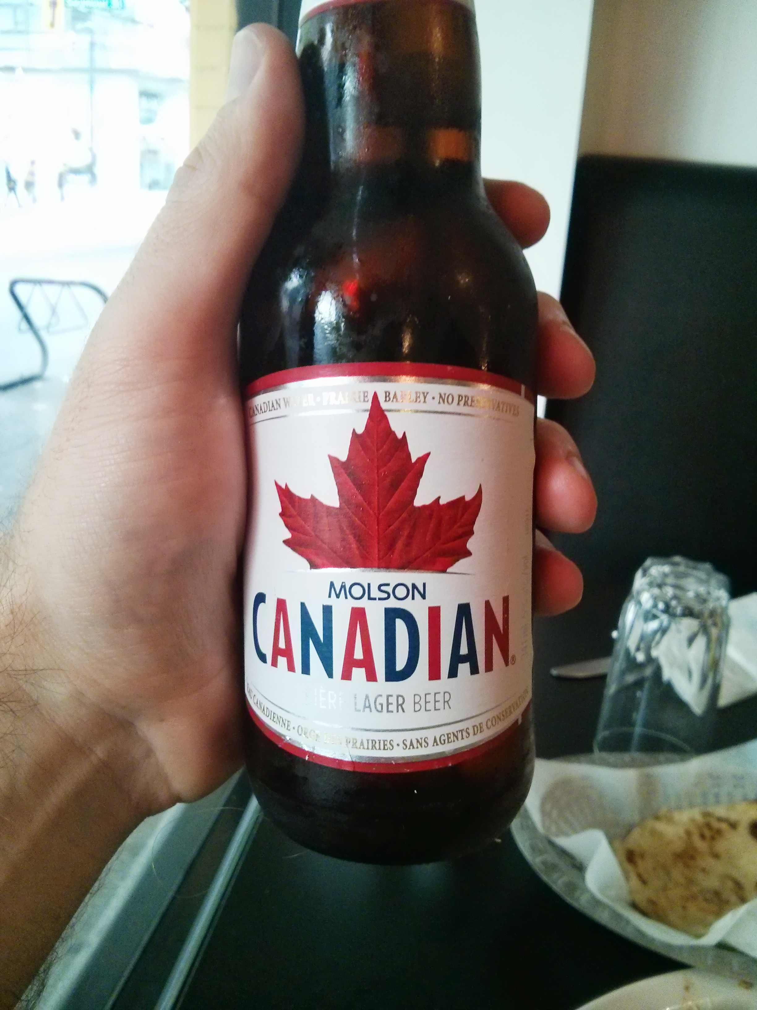 Beerbottle "Molson Canadian"